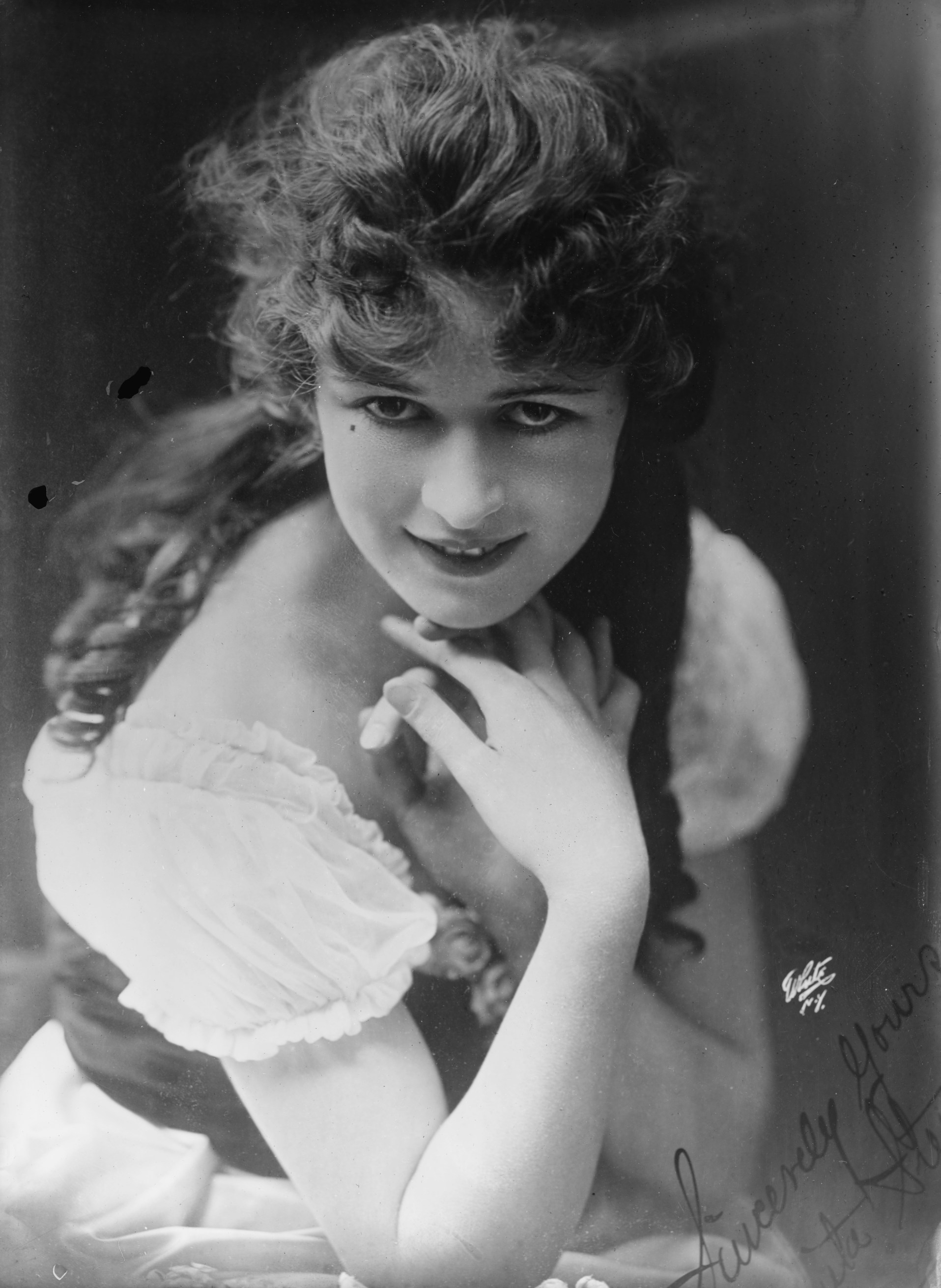 Actress Anita Stewart